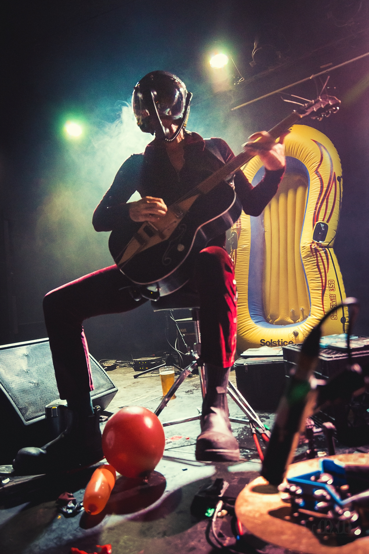 Bob Log III live in Québec City